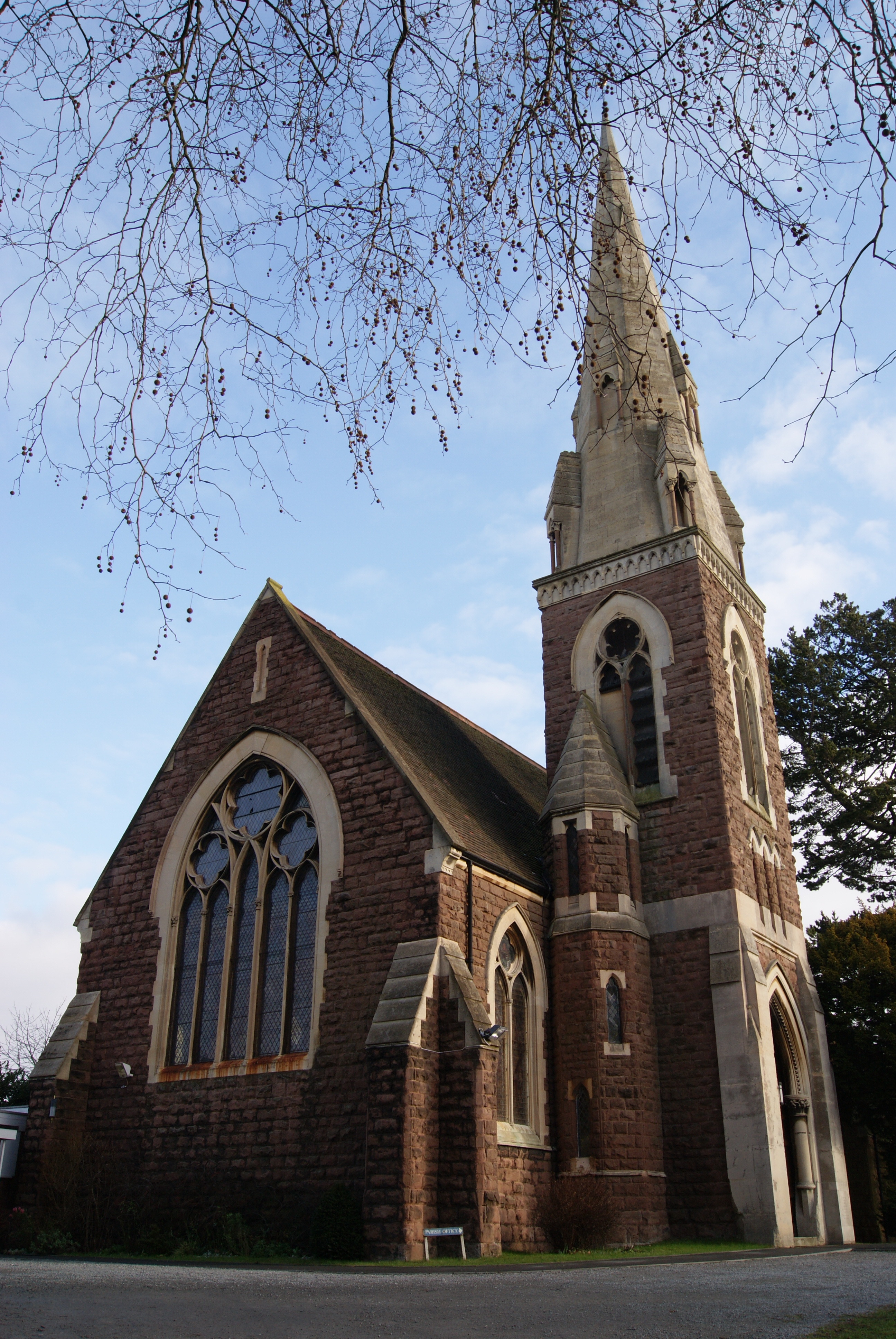 St. Stephen's Church on Serpentine Road, Selly Park, Birmingham, West Midlands, England, UK. Built in 1871, the church is jointly managed with St. Wulstan's Church, Selly Park.